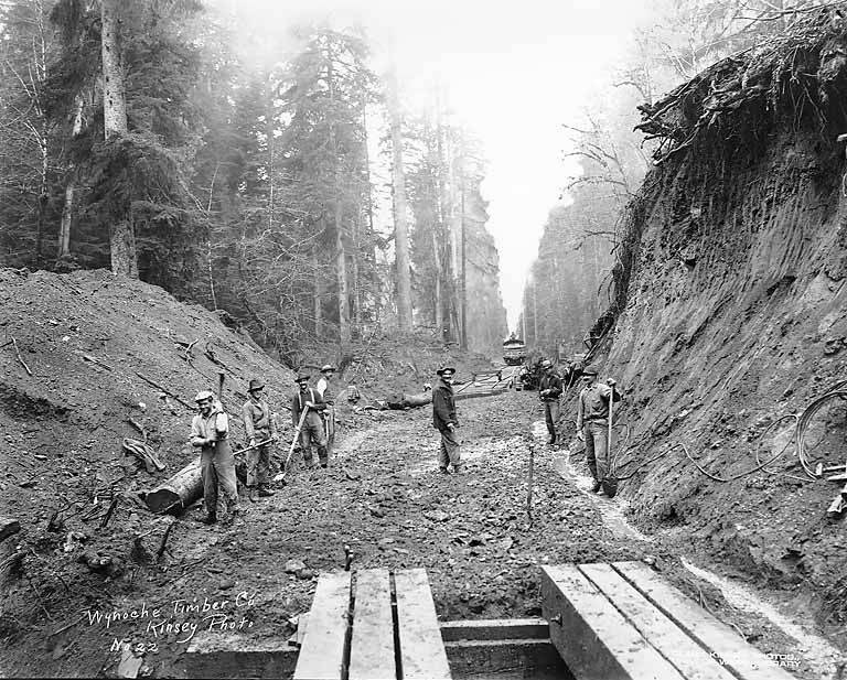 Caption on image: Wynoche Timber Co. Kinsey Photo. No. 22 PH Coll 516.5185The Wynooche Timber Company began operations ca. 1913 with headquarters in Hoquiam and logging operations in Montesano. It was named for Wynooche Valley in northeast Grays Harbor County. Wynooche Timber Company was bought out by Schafer Brothers Logging Company ca. 1927. Montesano, the county seat of Grays Harbor County, is eight miles east of Aberdeen on the Chehalis River near the mouth of Wynooche River in central Grays Harbor County. In 1862, the name Mount Zion was suggested by the wife of the first settler, J. L. Scammon. Another pioneer, Samuel James, suggested the present name from the Spanish monte or mountain, and sano or health. Local authorities thought Sam's name had more meaning. Subjects (LCTGM): Railroad construction workers; Railroad construction & maintenance--Washington (State); Railroad tracks--Washington (State); Wynooche Timber Company--People--Washington (State); Grays Harbor County